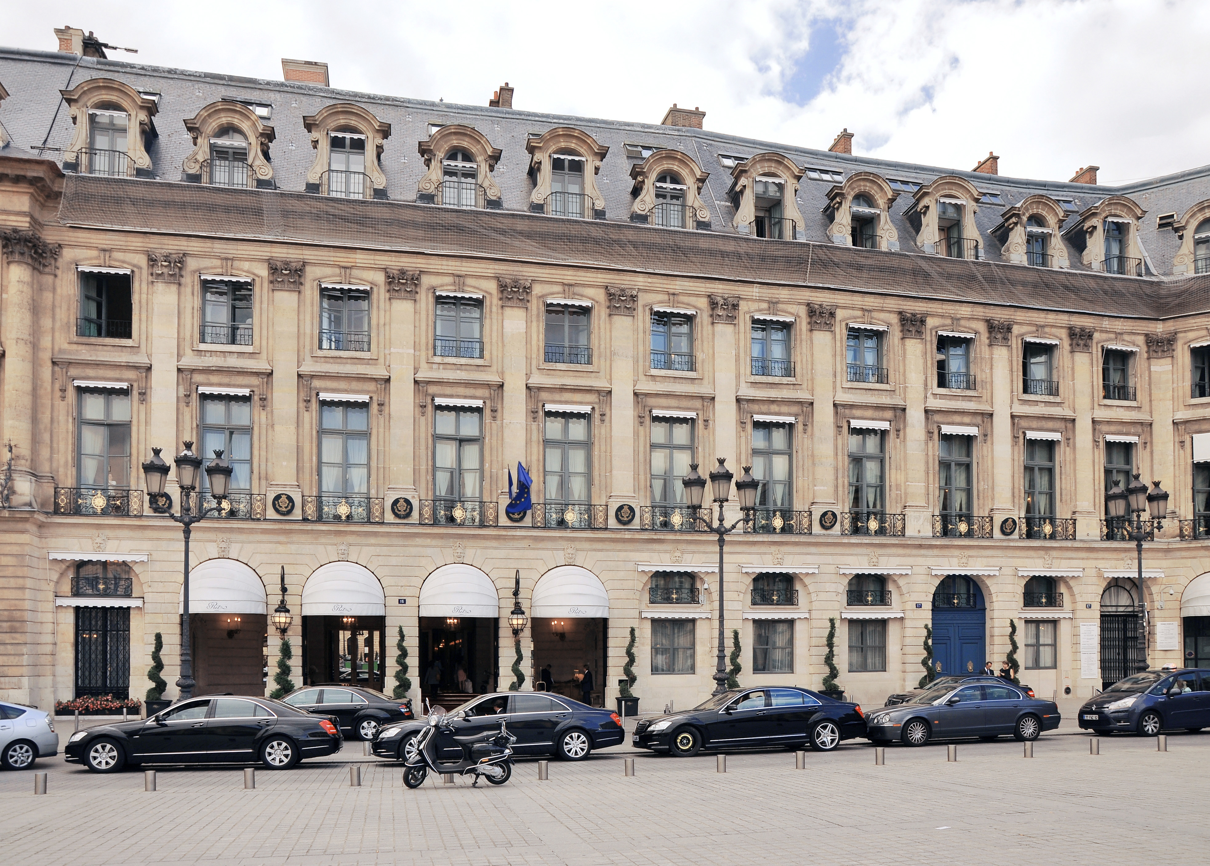 Hôtel de Crozat actually Hôtel Ritz at 17 place Vendôme in the 1st district of Paris, France